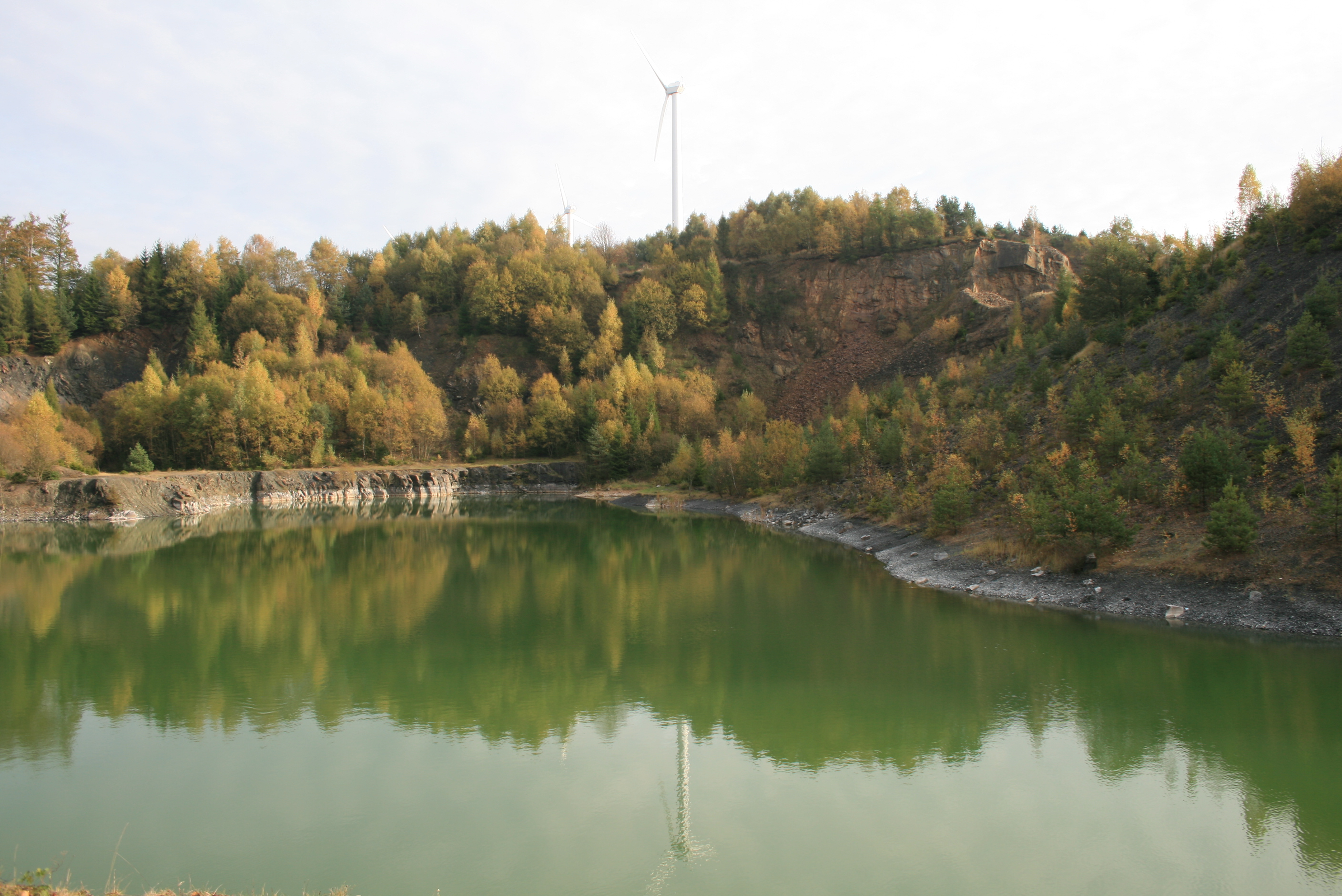 Silbersee in Achenbach, in the background: wind turbines.